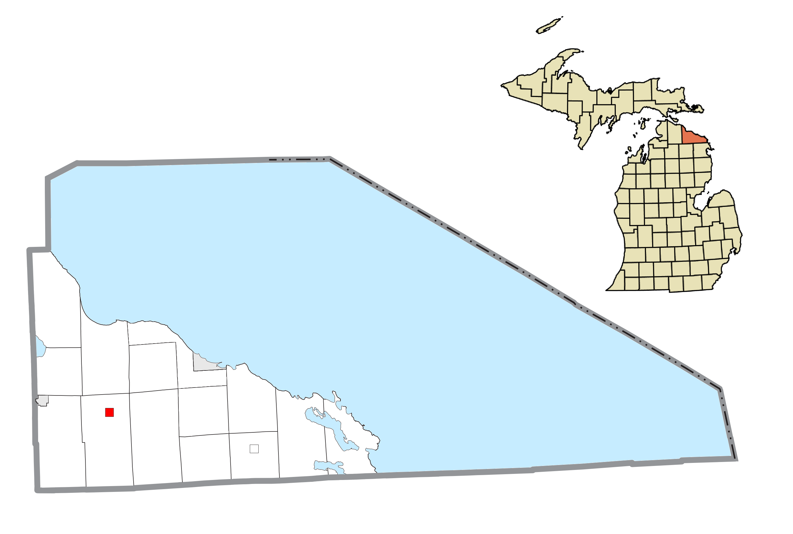 Millersburg, MI